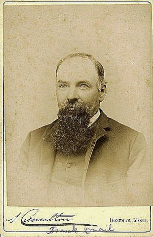 Studio portrait of Frank Crail taken about 1890.